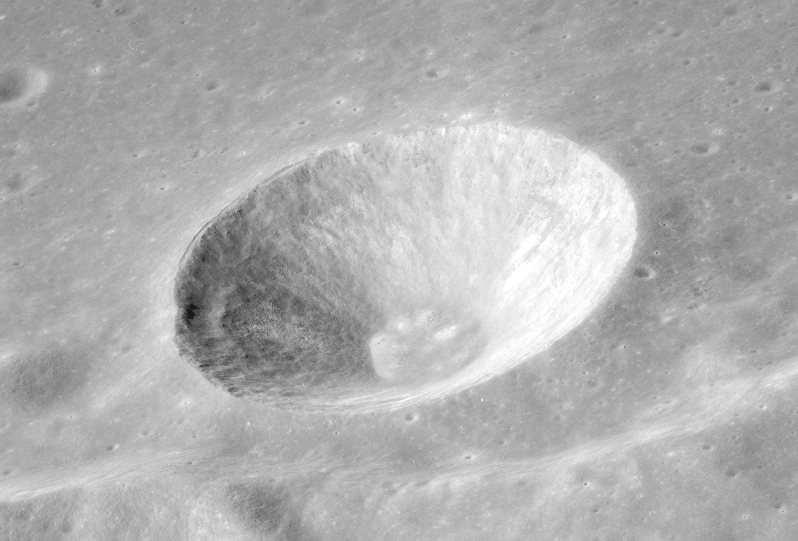 Oblique view of Fabbroni crater, on the moon. Taken by Apollo 15 panoramic camera.